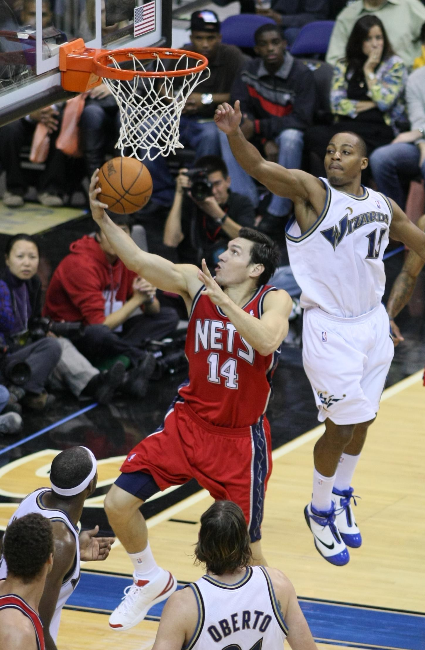 Eduardo Najera playing with the New Jersey Nets